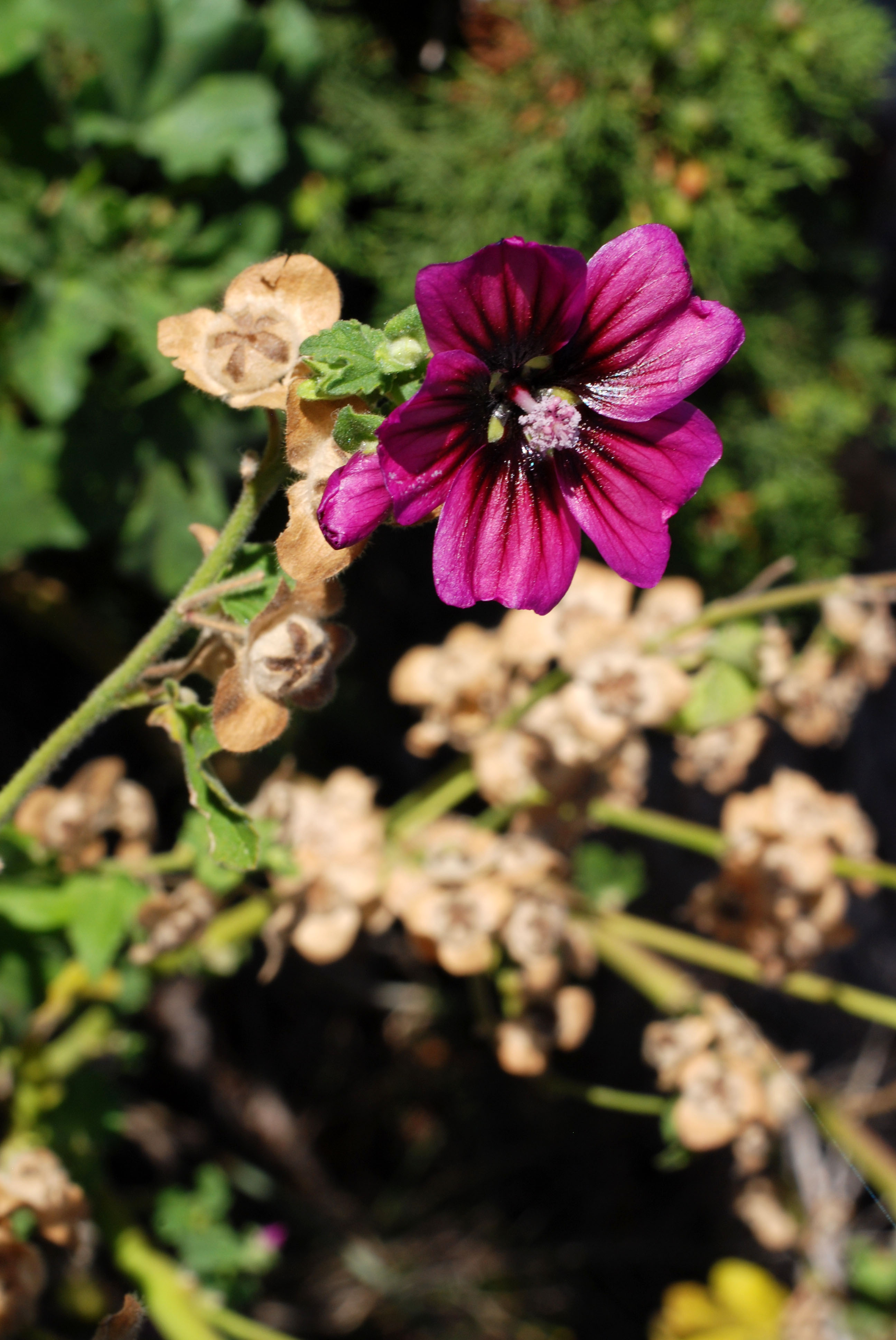 Lavatera arborea, Cap Blanc, Ibiza